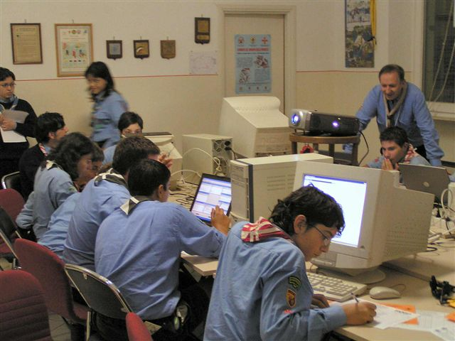 Scouts talking on the radio during Jamboree on the Air